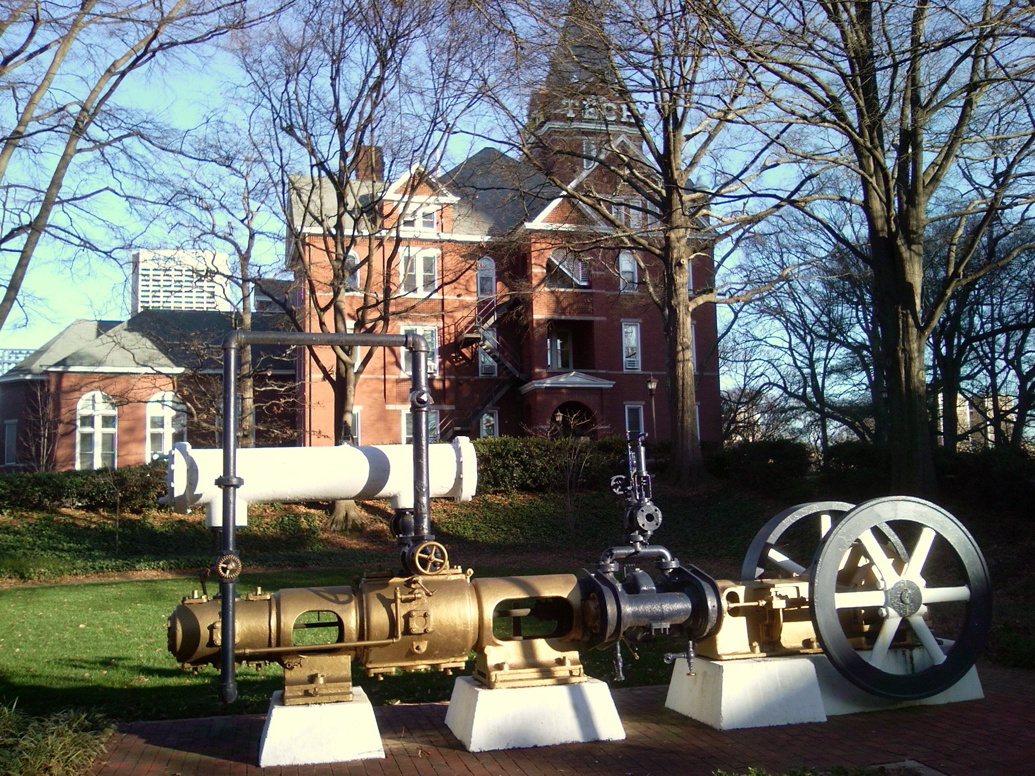 A photo of a steam engine at Georgia Tech, with Tech Tower in the background. Photo taken by User:MaxVeers in January 2007.